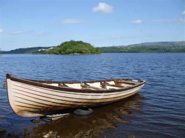 Lough Gill